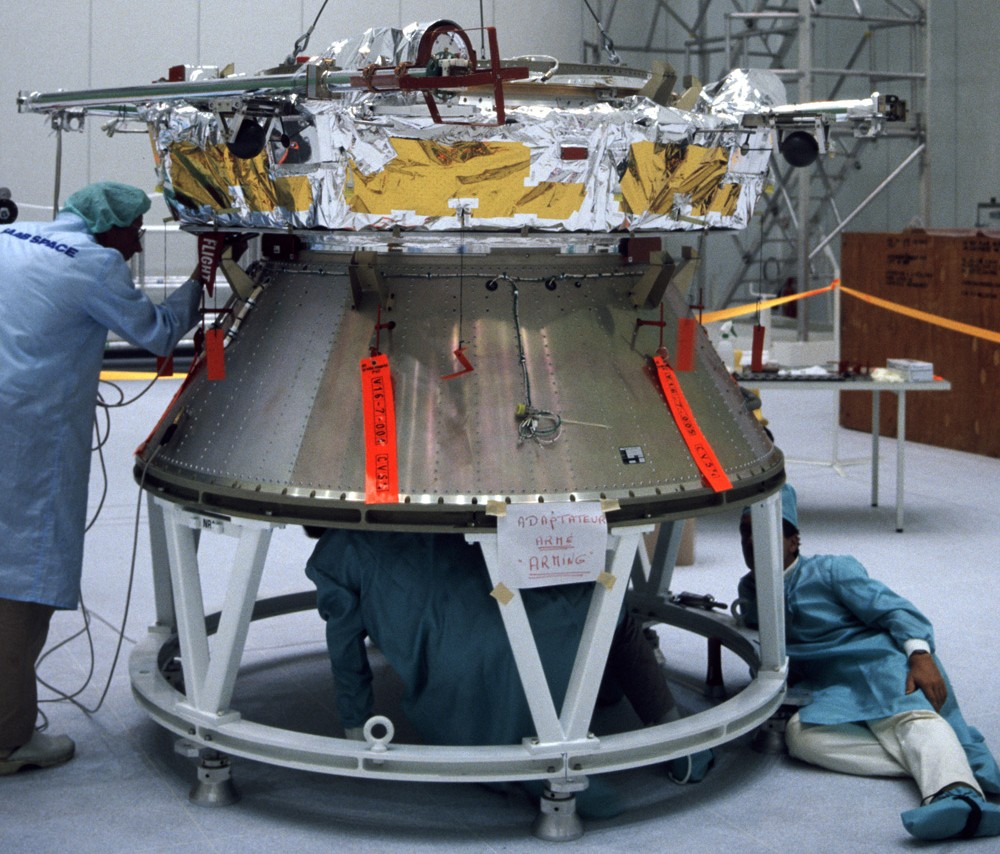 The Viking satellite is mounted on top of the Ariane adapter which in turn will be mounted on top of the 3rd stage of the Ariane 1.